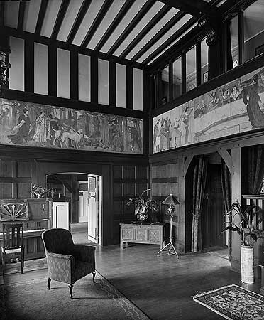 Interior of The Anchorage, Handsworth Wood, Birmingham. Interior of the hall, with hunting and feasting murals on the walls by Fred Davis. Photograph commissioned by the Well Fire Co (the subject recorded in the Bedford Lemere daybook as looking towards the dining room). The murals were burnt in a fire circa 1977.